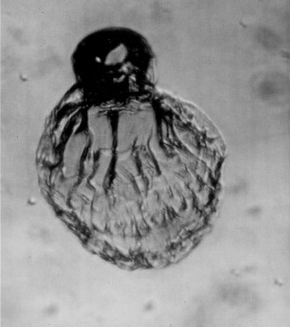 Photo and drawing of Microrhopalodites polynucleatis n. gen., n. sp. R = rostellum, A = axostyle, N = nucleus, Bar = 41 μm.